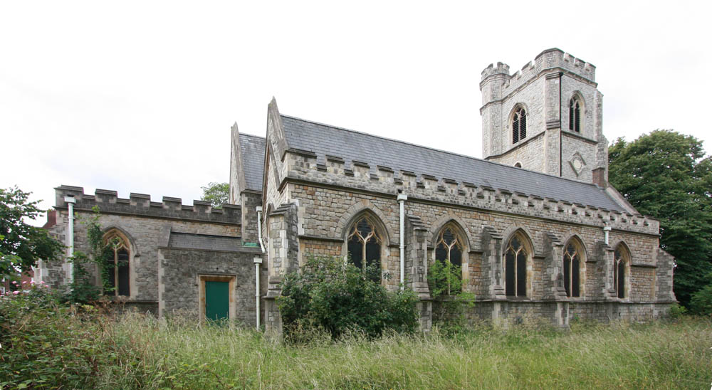 St Barnabas' parish church, Homerton, London E9, seen from the north